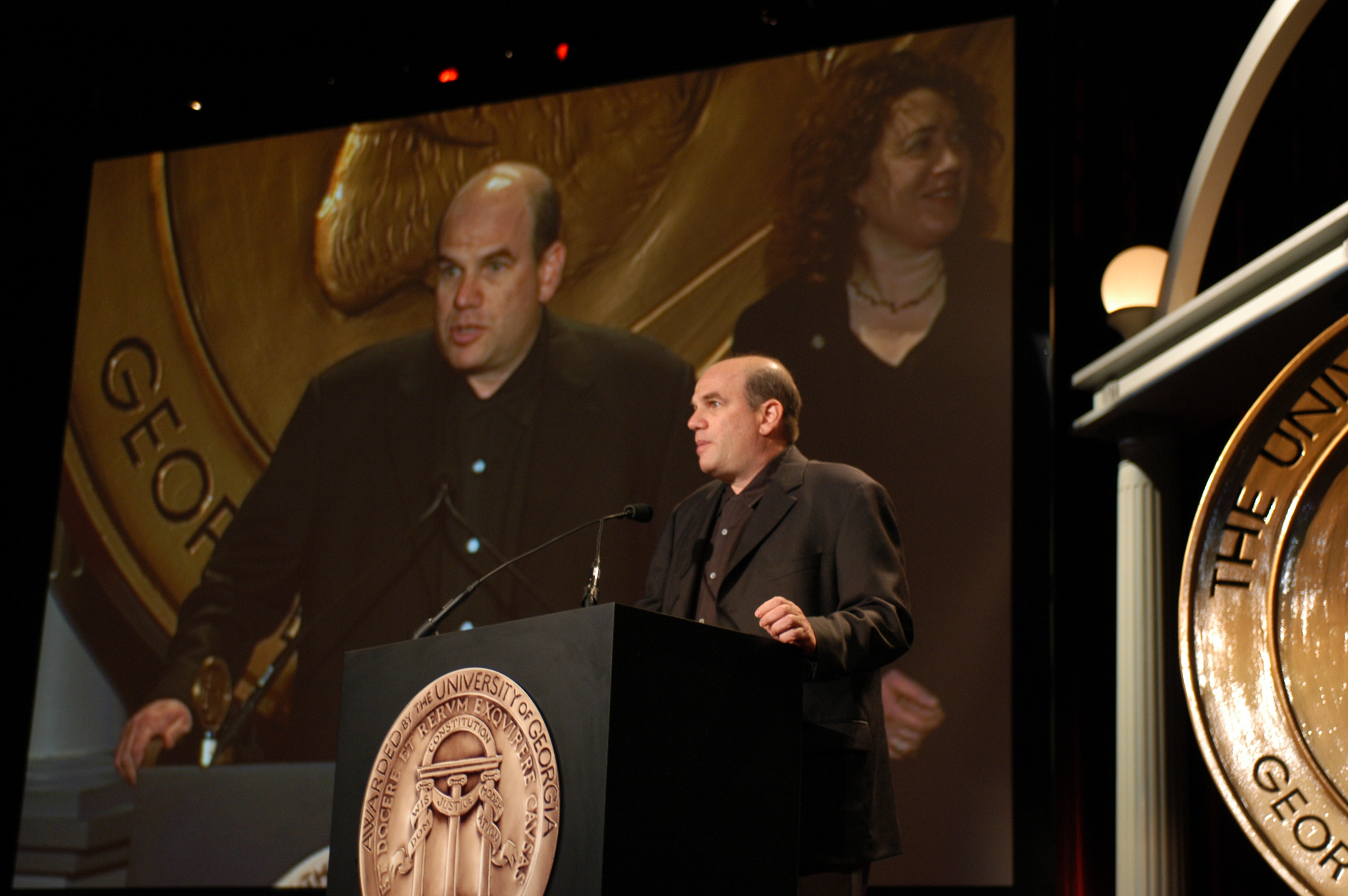 PHOTO CREDIT: ANDERS KRUSBERG / PEABODY AWARDS David Simon at the 63rd Annual Peabody Awards Luncheon Waldorf=Astoria Hotel May 17, 2004